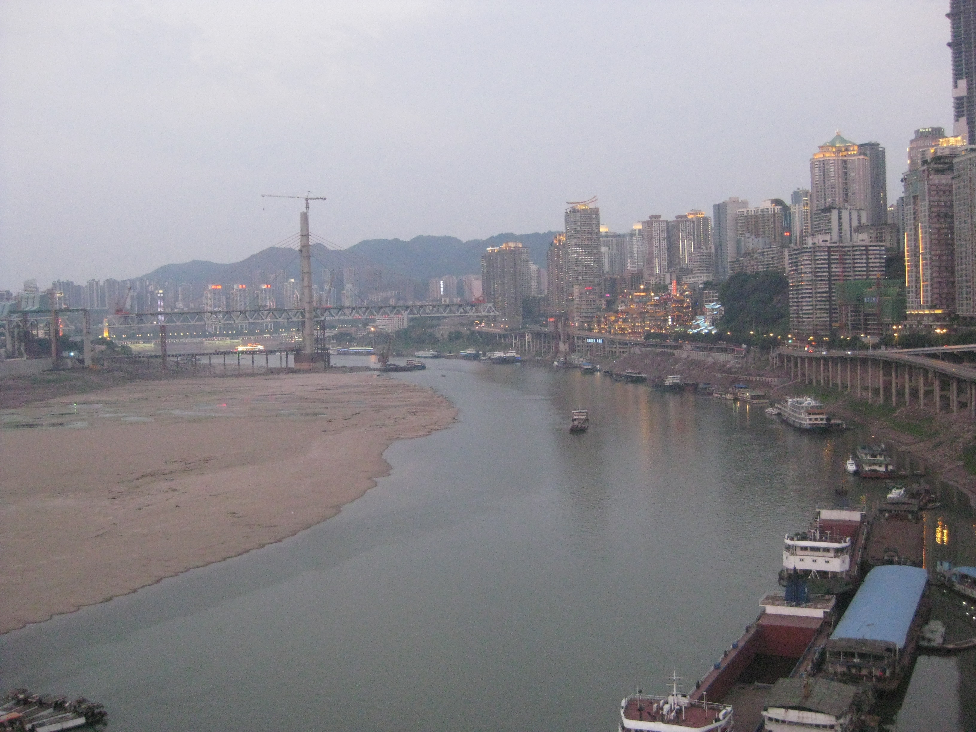 This is a picture about Chongqing Qiansimen Bridge under construction（May 2013）